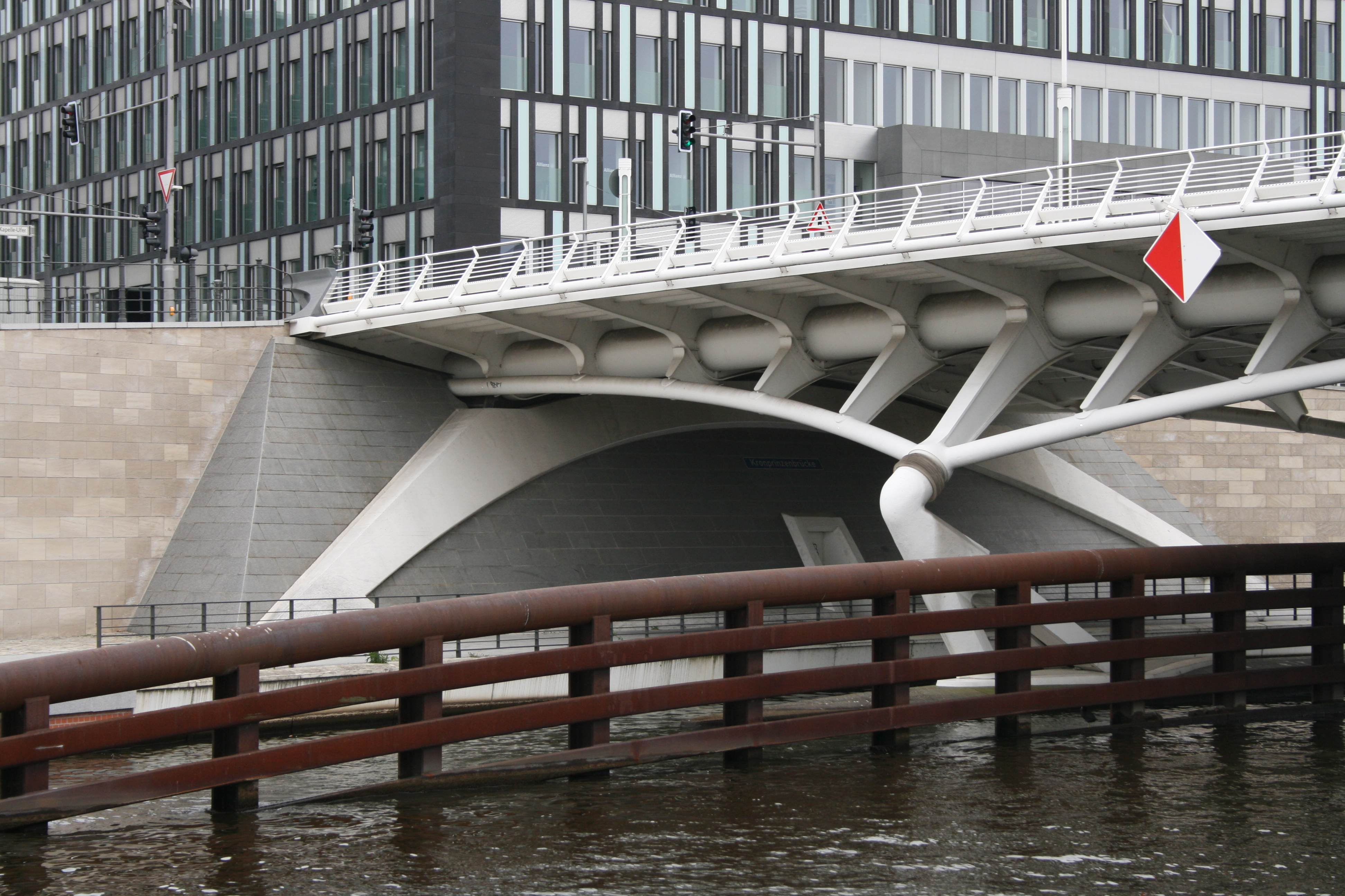 Kronprinzenbruecke in Berlin (Germany) upon the Spree river, in the background the house of the Bundespressekonferenz (permanent press conference, organized by the society of Berlin journalists).